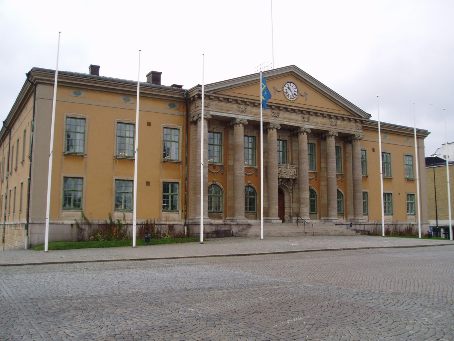 town hall (rådhuset), Karlskrona